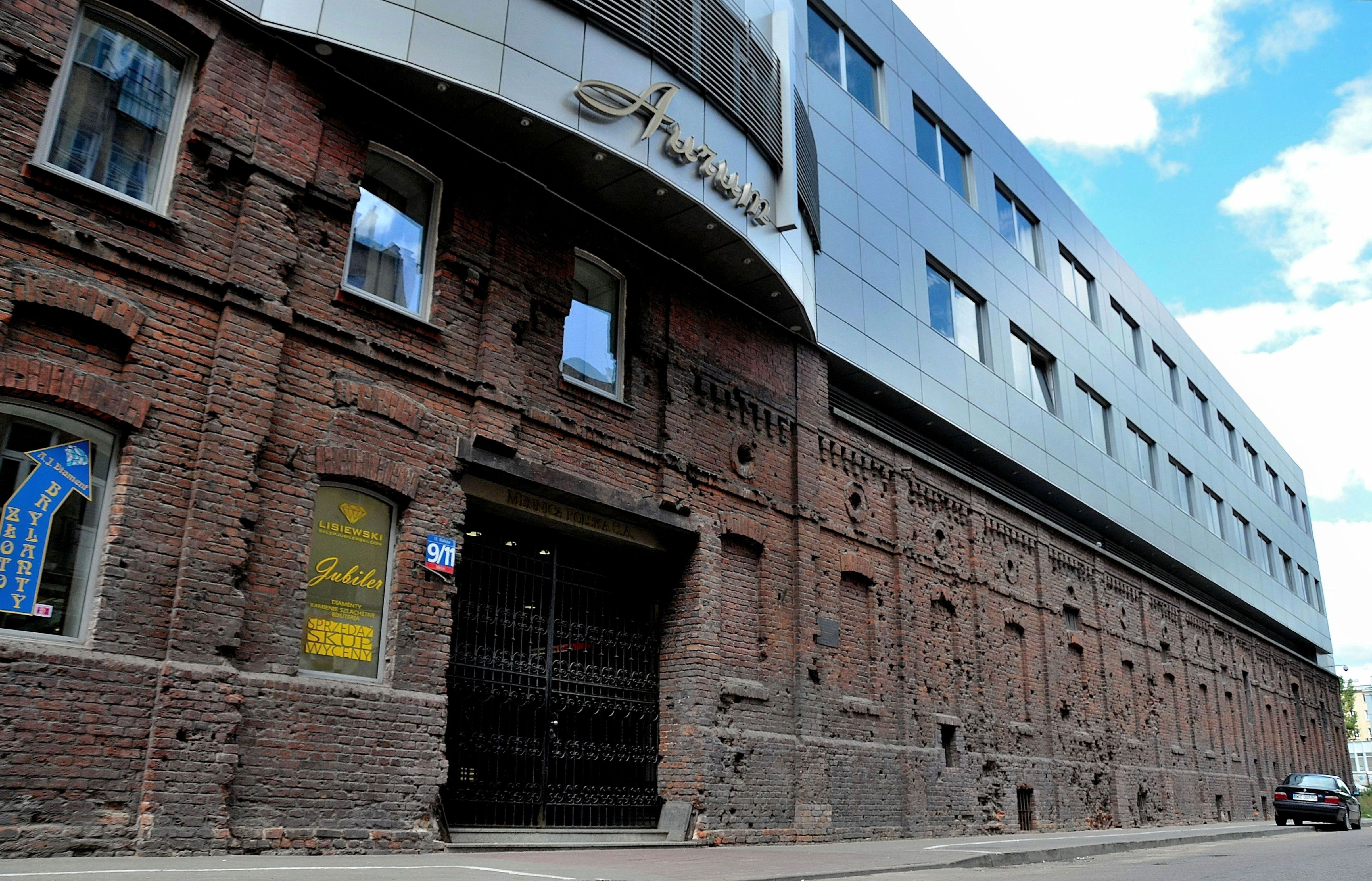 Wall of Herman Jung former brewery building at 11 Waliców Street, in 1940-1942 wall of the Warsaw Ghetto (currently a part of Aurum office building)